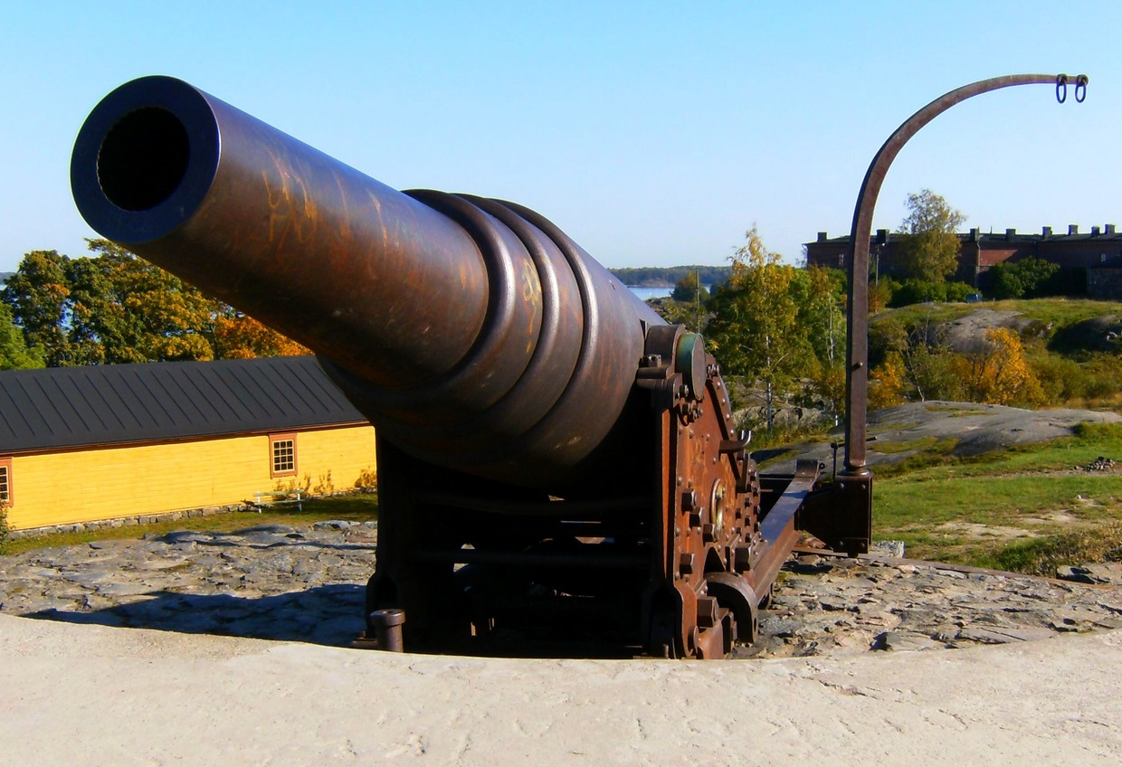 A Krupp 229 mm naval gun M1867 in Suomenlinna, Helsinki, Finland. The 9 inch M1867 was the first succesfull type of rifled breech loader in naval artillery. This steel gun was developed by the Imperial Russian Navy for John Ericsson's Uragan class monitors, replacing the American designed 15 inch Dahlgren guns in 1873. The design is based on German Krupp technology, including the Krupp sliding breech wedge. The guns were produced at the Obukhov State Plant in St. Petersburg.